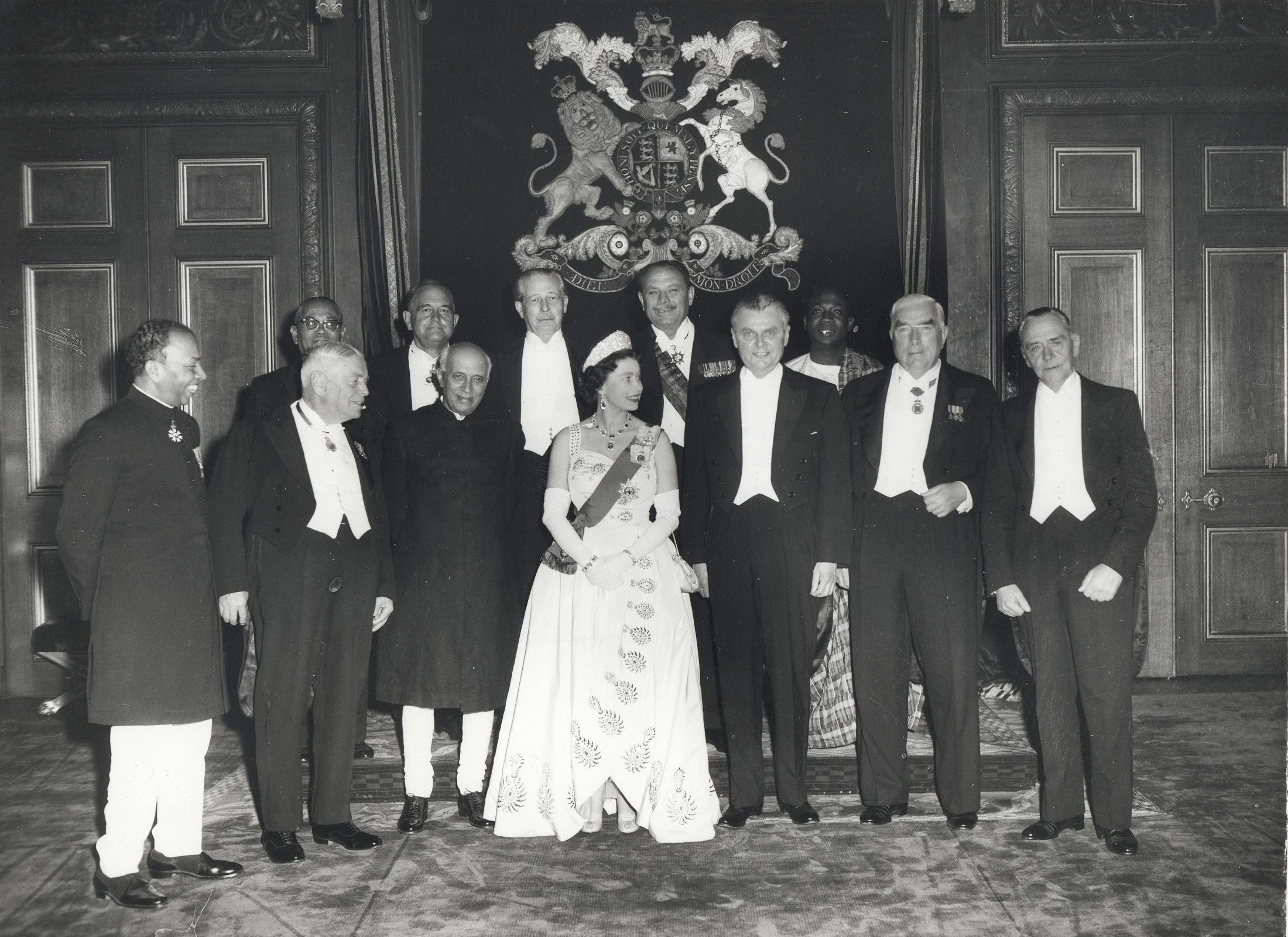 Photograph of Queen Elizabeth II and Commonwealth leaders, taken at the 1960 Commonwealth Conference, Windsor Castle Front row: (left to right) E. J. Cooray, Walter Nash, Jawaharlal Nehru, Elizabeth II, John Diefenbaker, Robert Menzies, Eric Louw Back row: Tunku Abdul Rahman, Roy Welensky, Harold Macmillan, Mohammed Ayub Khan, Kwame Nkrumah